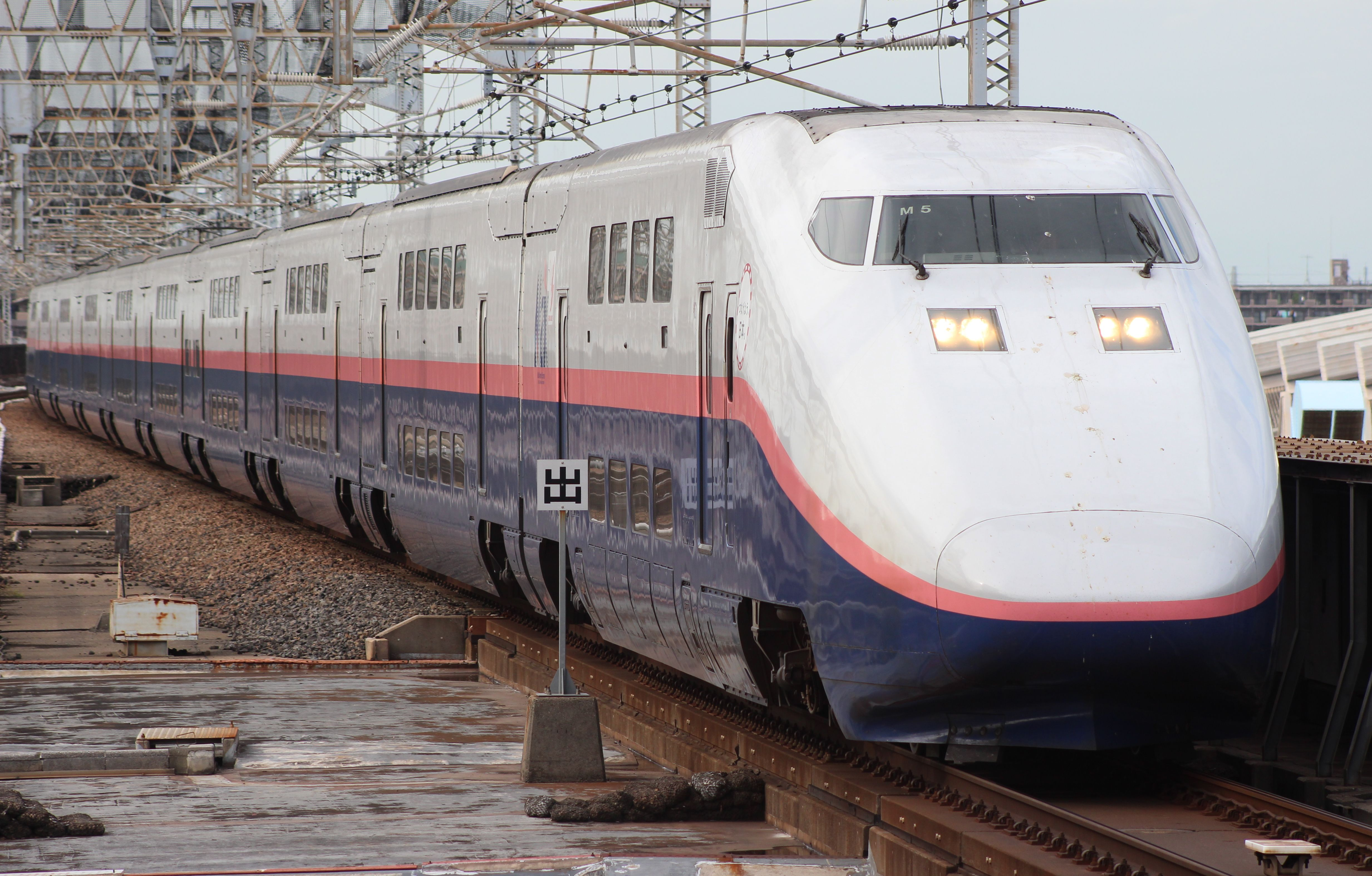 Refurbished JR East E1 series shinkansen set M5 approaching Omiya Station on a Joetsu Shinkansen service